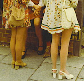 Small extract from photograph taken at wedding in S E England in c Summer 1972